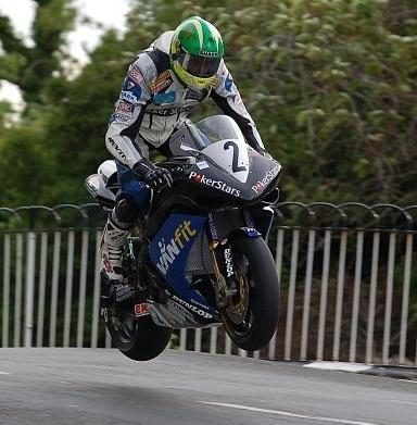 Connor Cummins